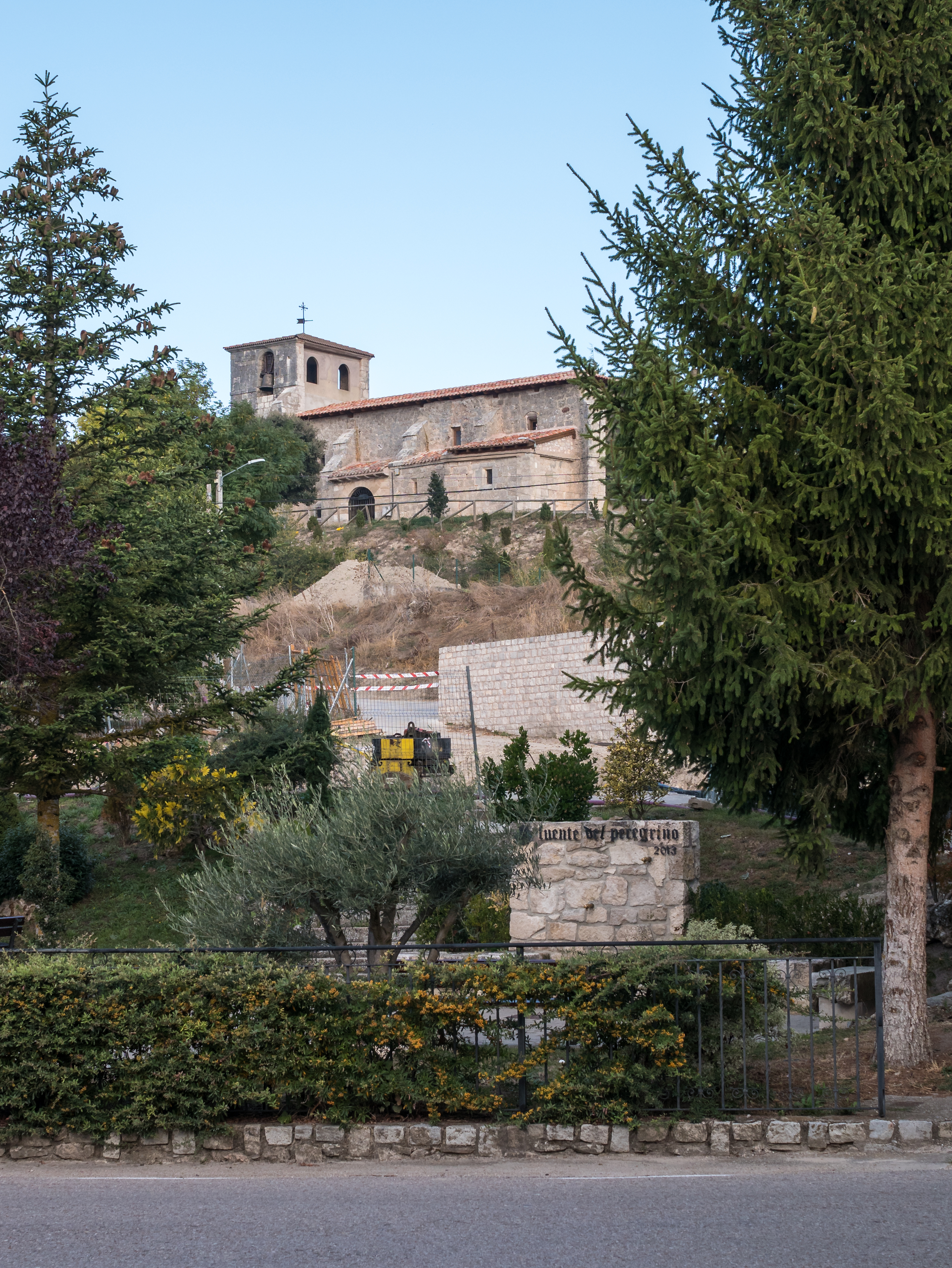 Orbaneja Riopico, Church and Pilgrim's Fountain. Burgos, Castilla-León, Spain